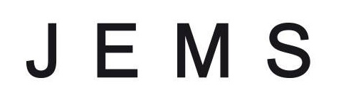 JEMS Architects logo